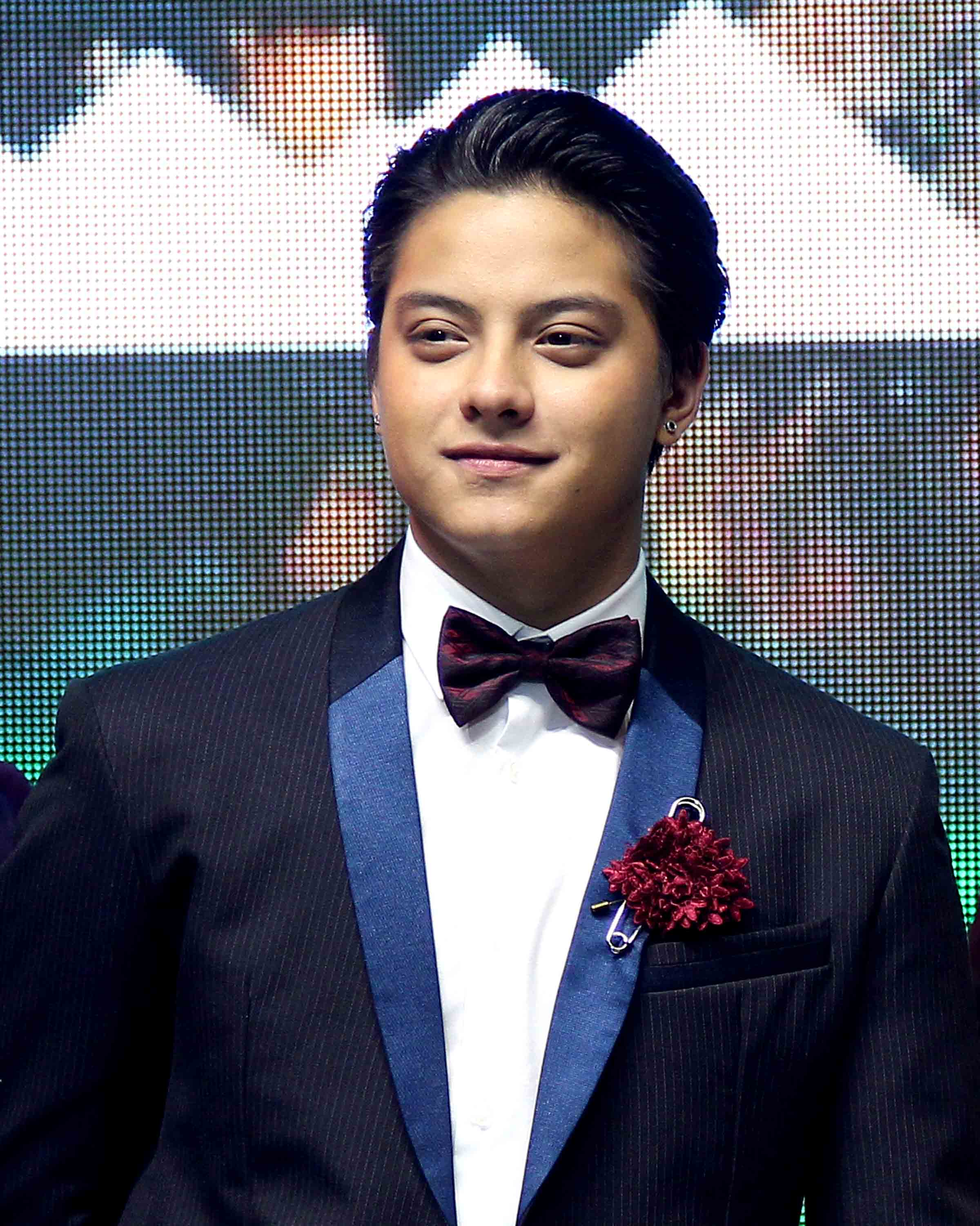 Daniel Padilla at Celebrate Mega in Iceland event, 2016